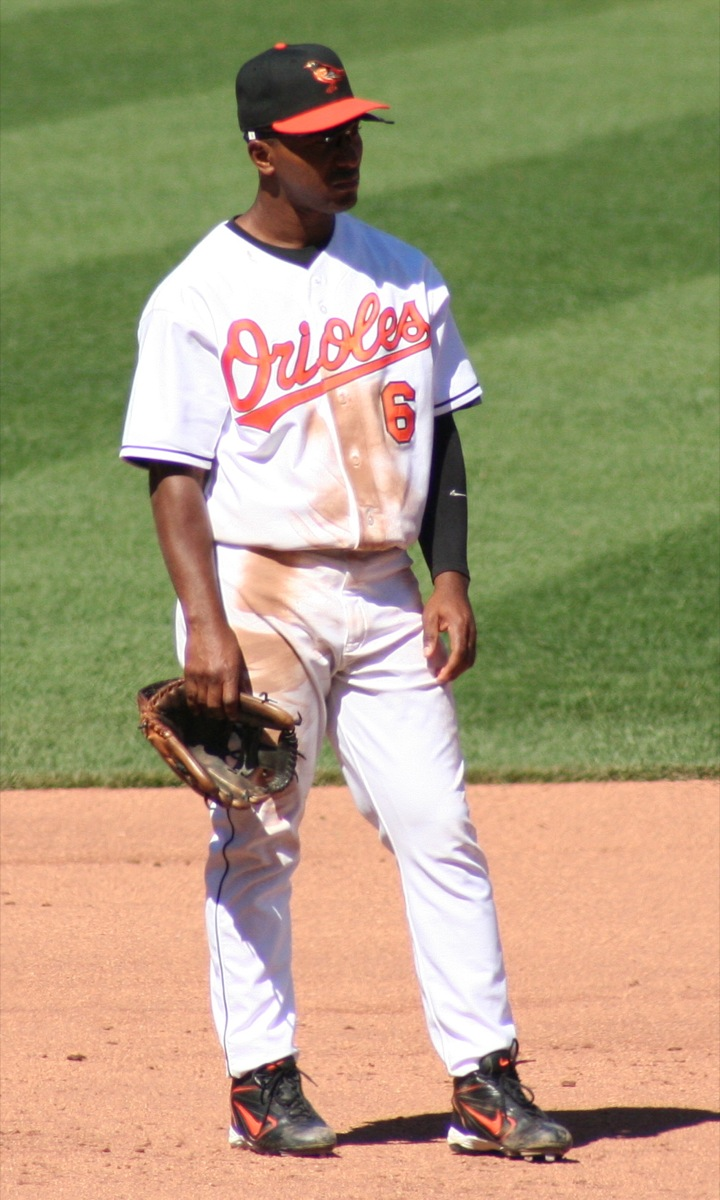 Melvin Mora, during a break in the action, just stands around, playing for Baltimore Orioles in 2006.